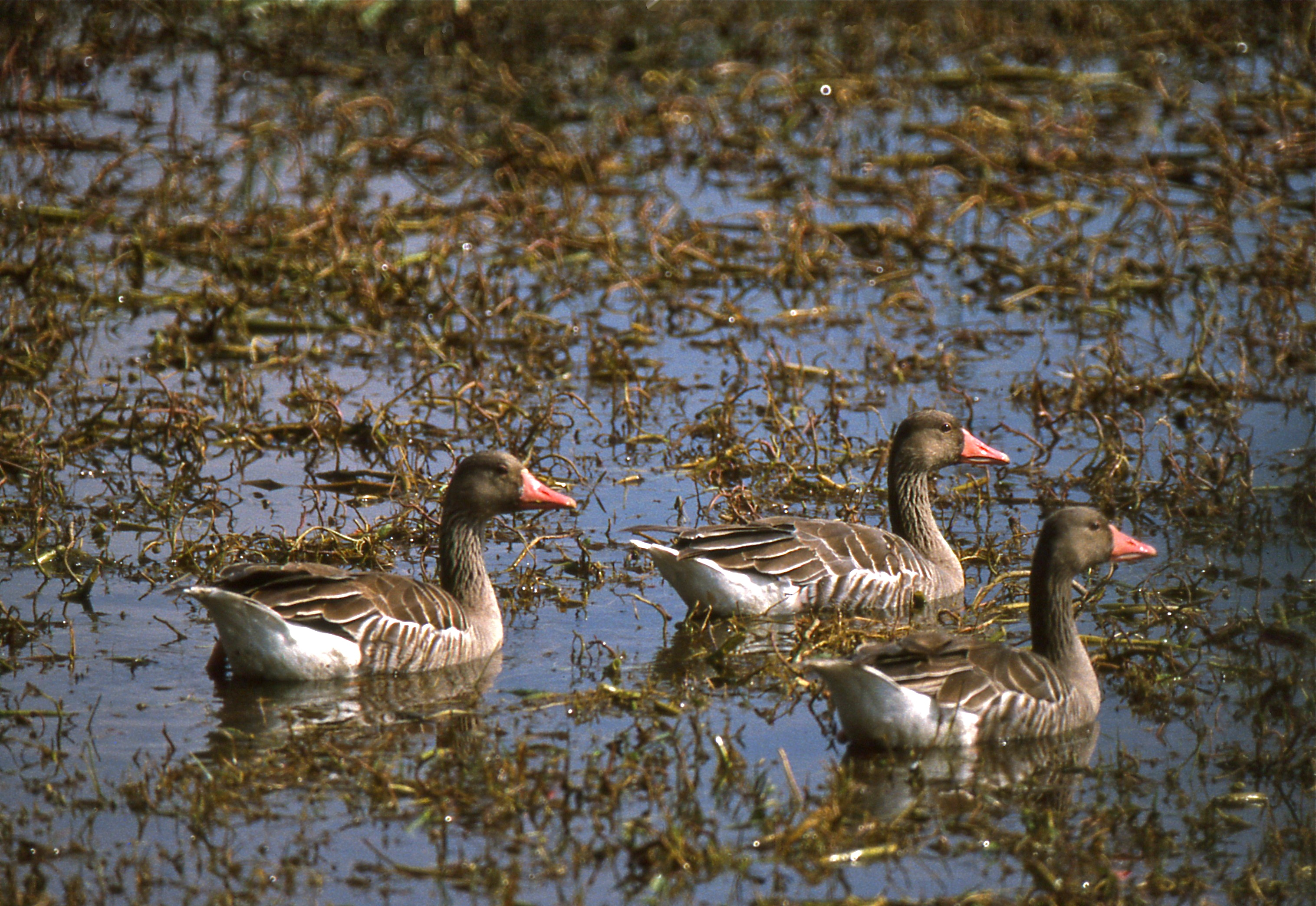 Keoladeo Ghana NP, Bharatpur, Rajasthan, INDIA Scanned Slide from January 1996